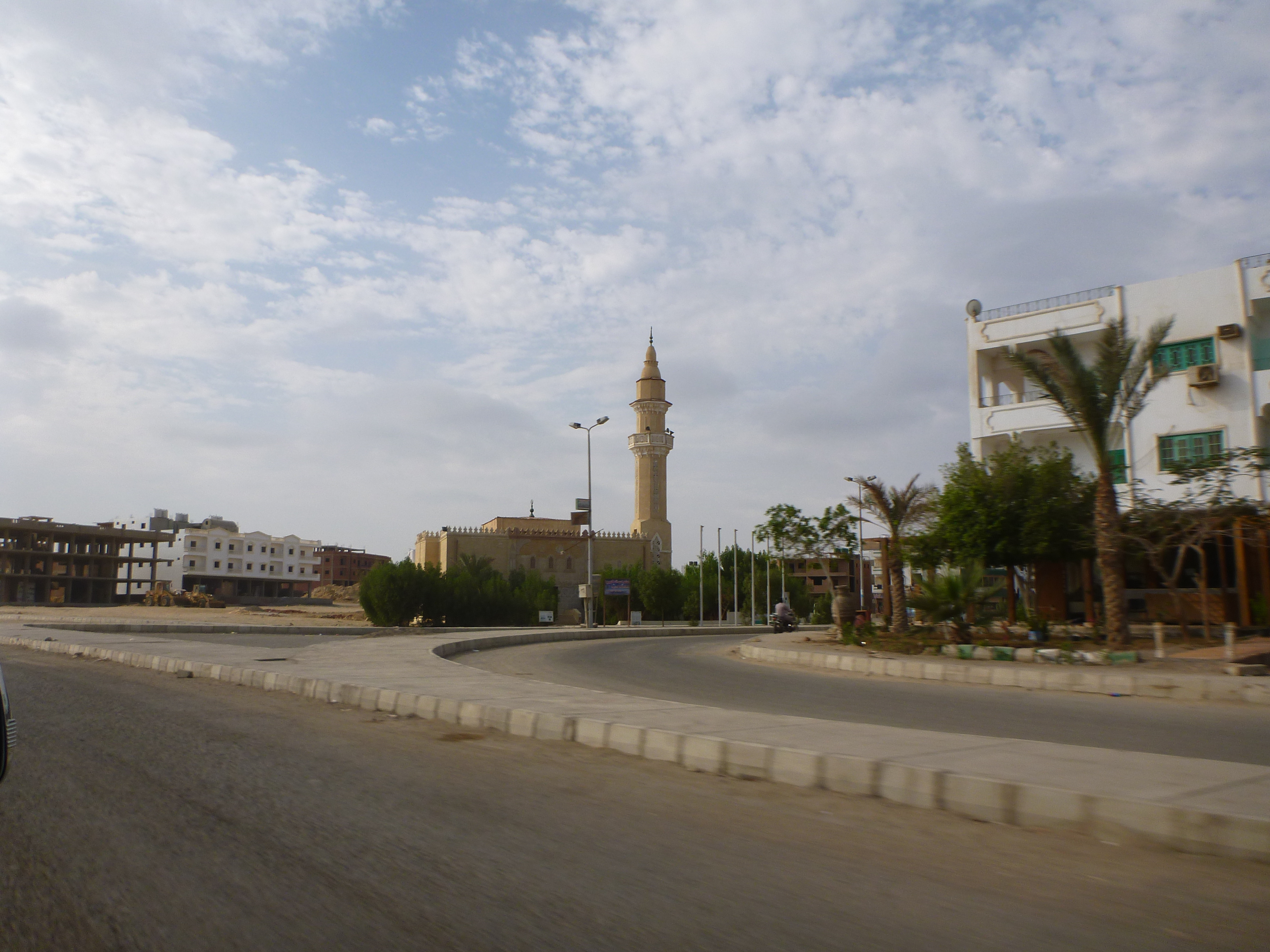 Mosque in Marsa Alam